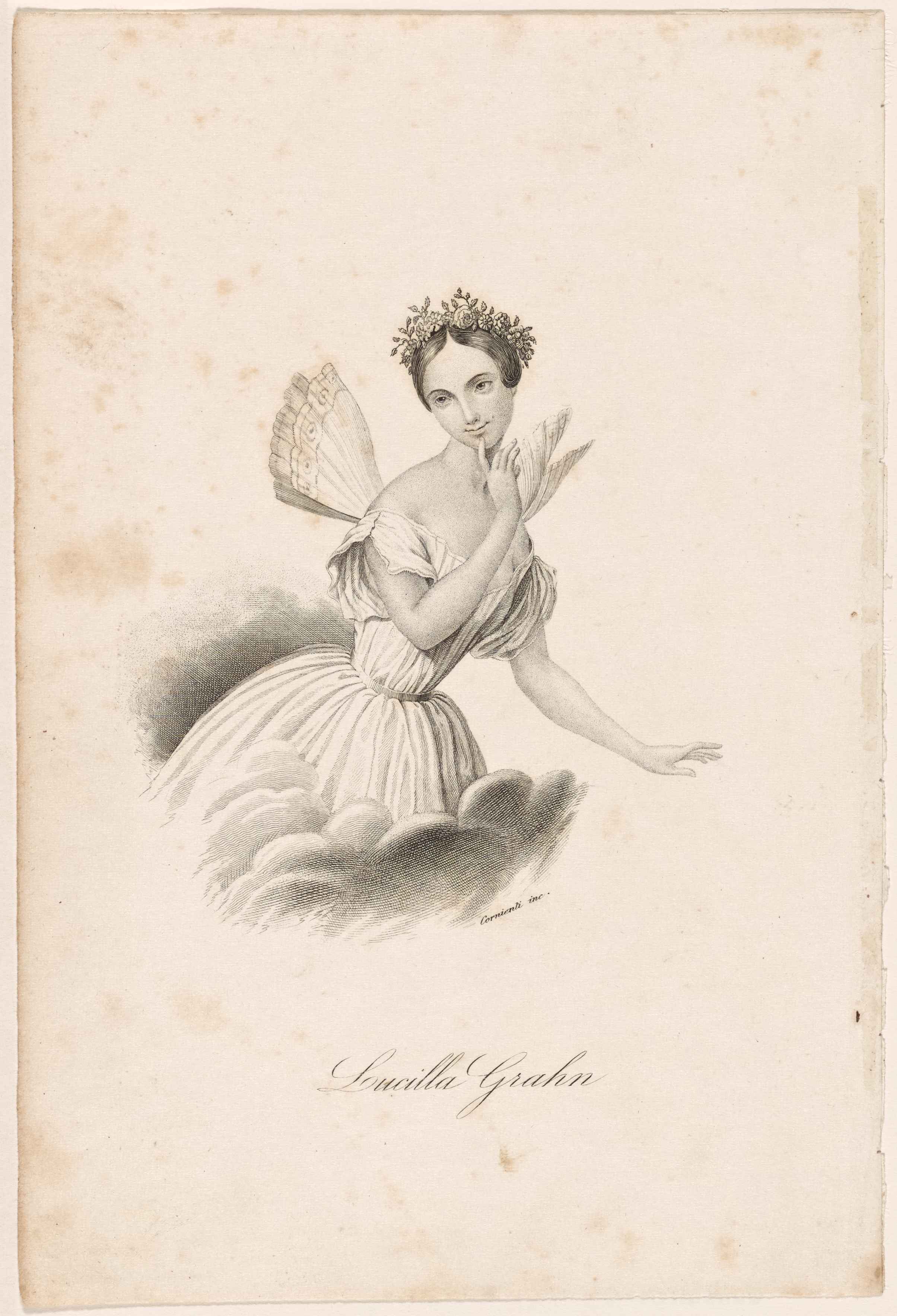 Three-quarter length portrait of Lucile Grahn in costume of La sylphide; turned to right, head inclined to left, right forefinger held to lips; wings attached to back of costume, garland of flowers in hair, clouds in front and back.